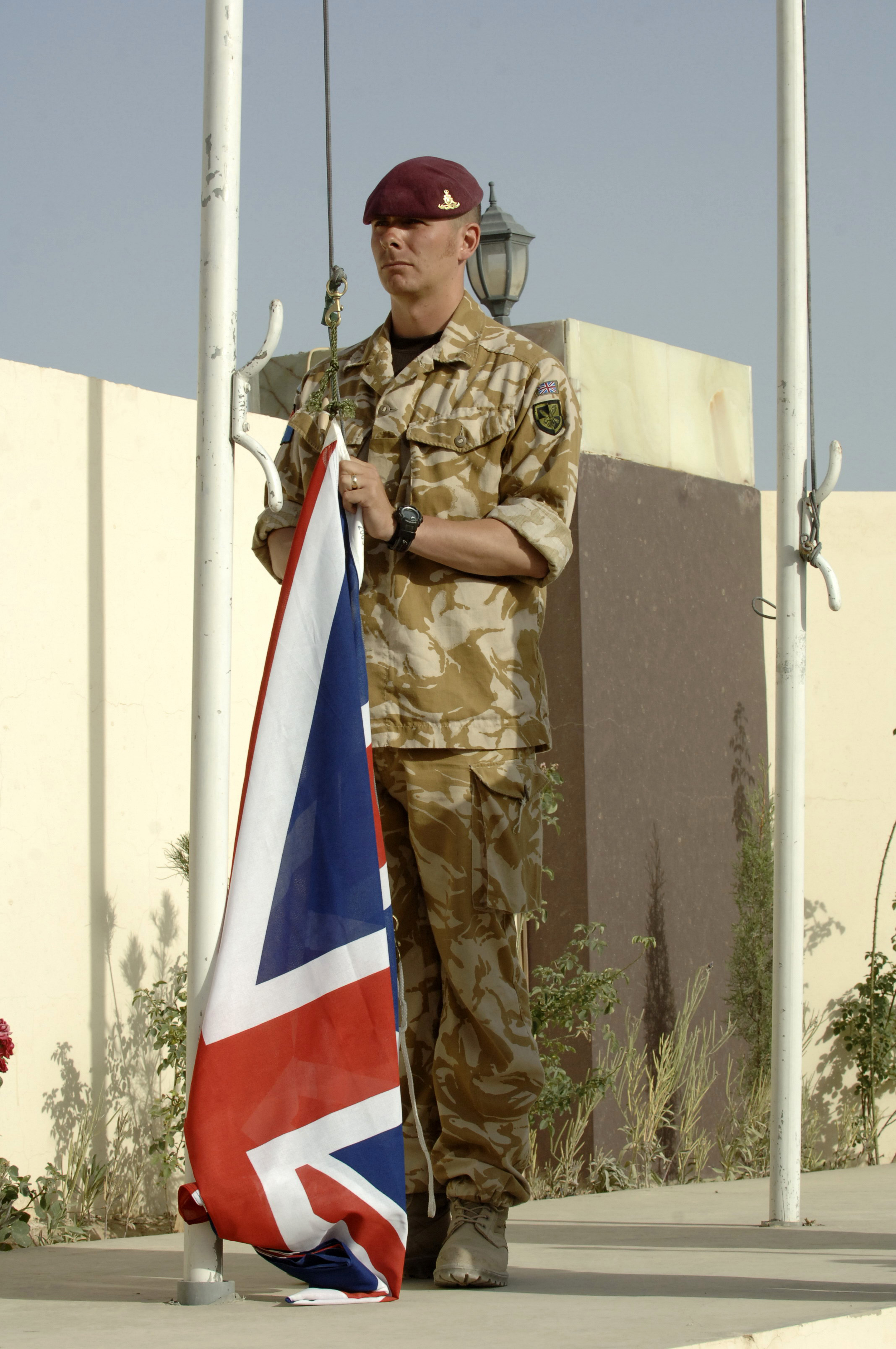 A British Army soldier from the 21st Air Artillery Defence Battery prepares to raise the British flag during a transfer of authority ceremony in Helmand Province, Afghanistan, May 1, 2006. (U.S. Army soldiers are transferring Lashkar Gah Provinci).